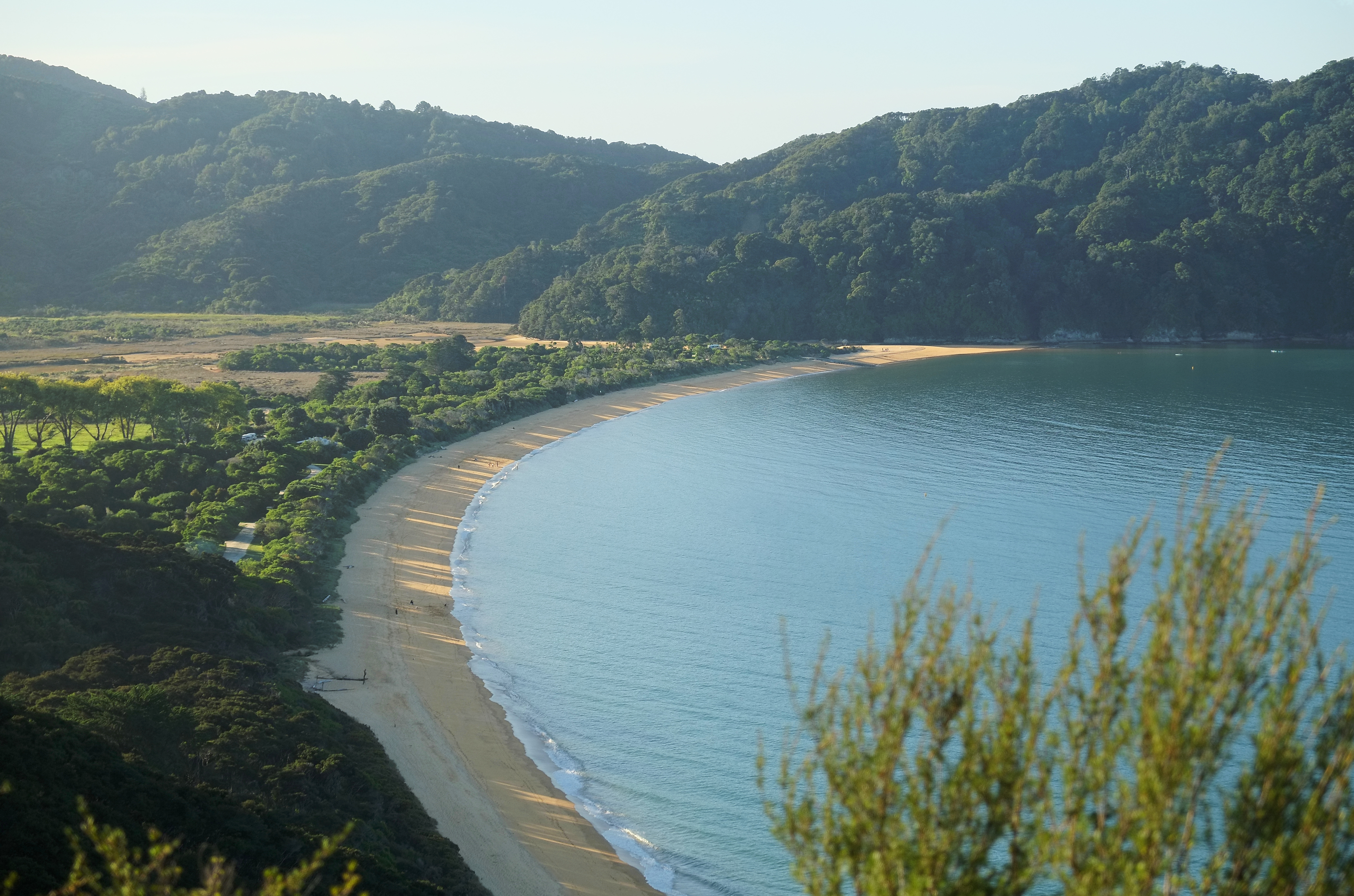 Totaranui Beach late afternoon